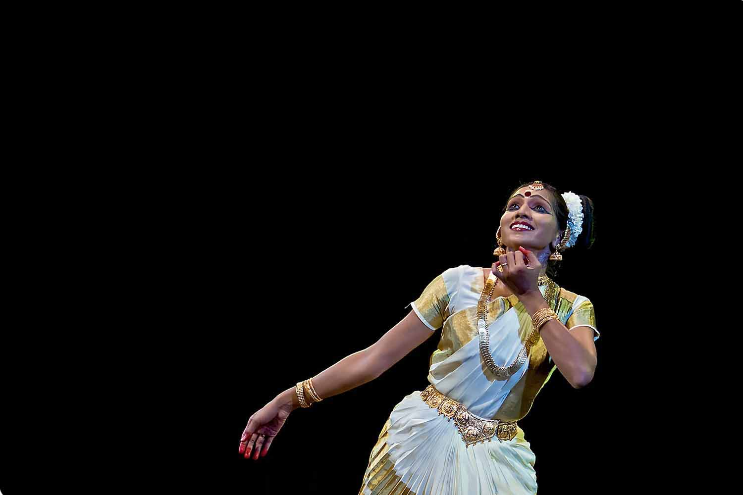 Mohiniyattam, The Classical Dance of Kerala, India - Photos of my performance at Nrityabharathi Festival, Bengaluru